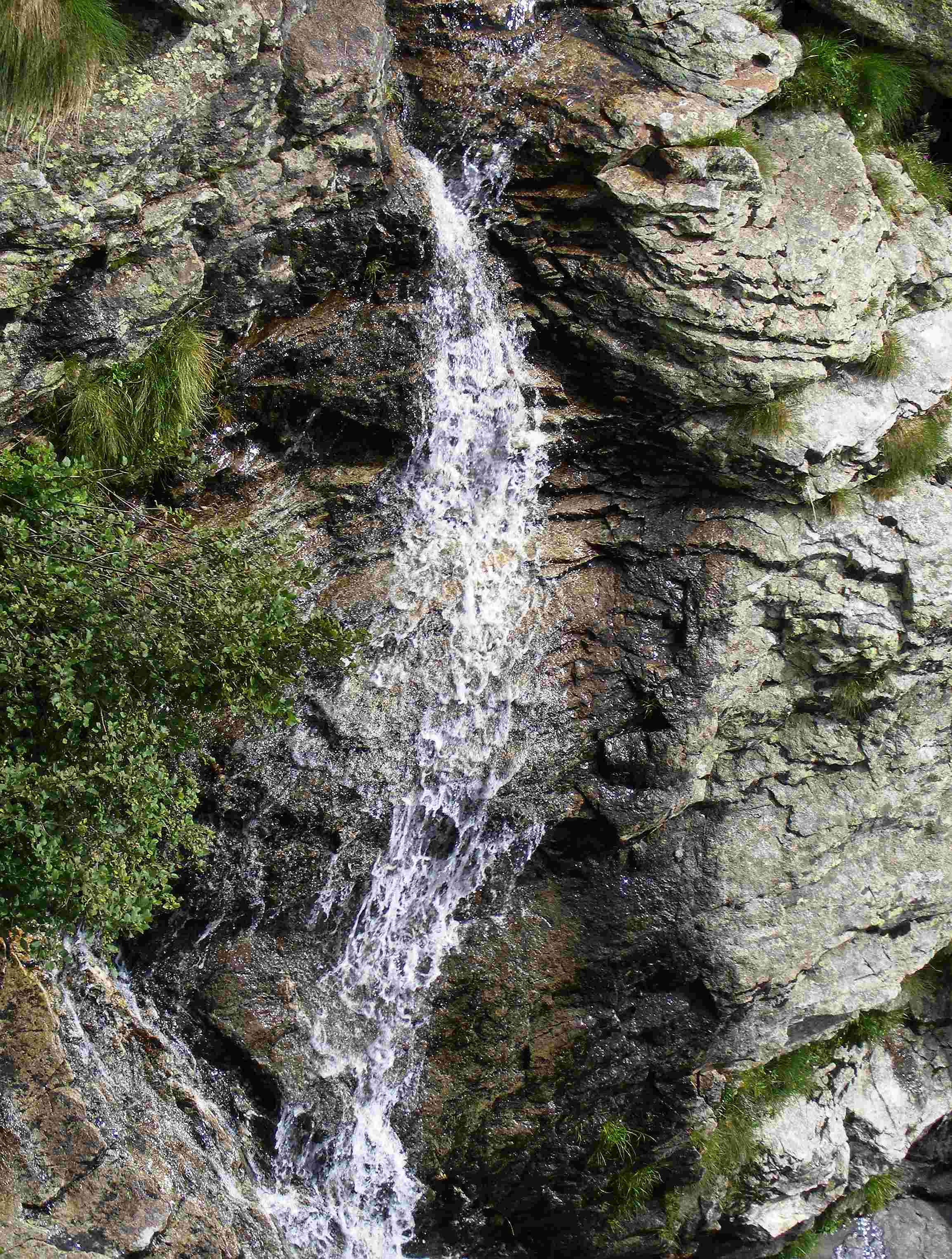 Viona creek near its source (Pennine Alps, Italy)